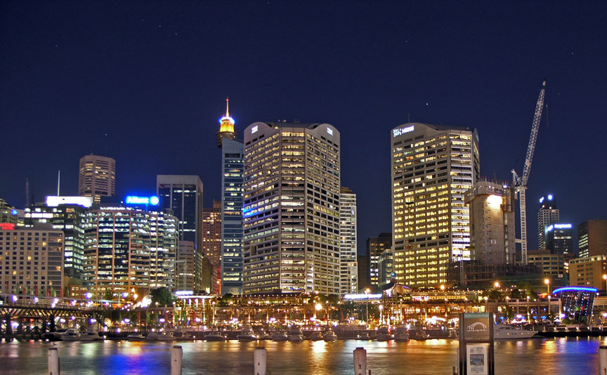 This is an image I took myself using an Olympus C8080W digital camera. It shows a night picture taken at Darling Harbour, Sydney, late 2004.